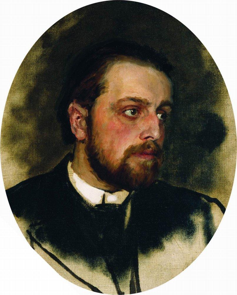 Portrait of writer Vladimir Grigorievich Chertkov